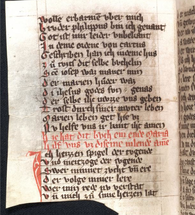 The picture shows the last page of 'The life of the Virgin Mary' from Philipp from Seitz in the Cod. Pal. germ. 394, UB Heidelberg.